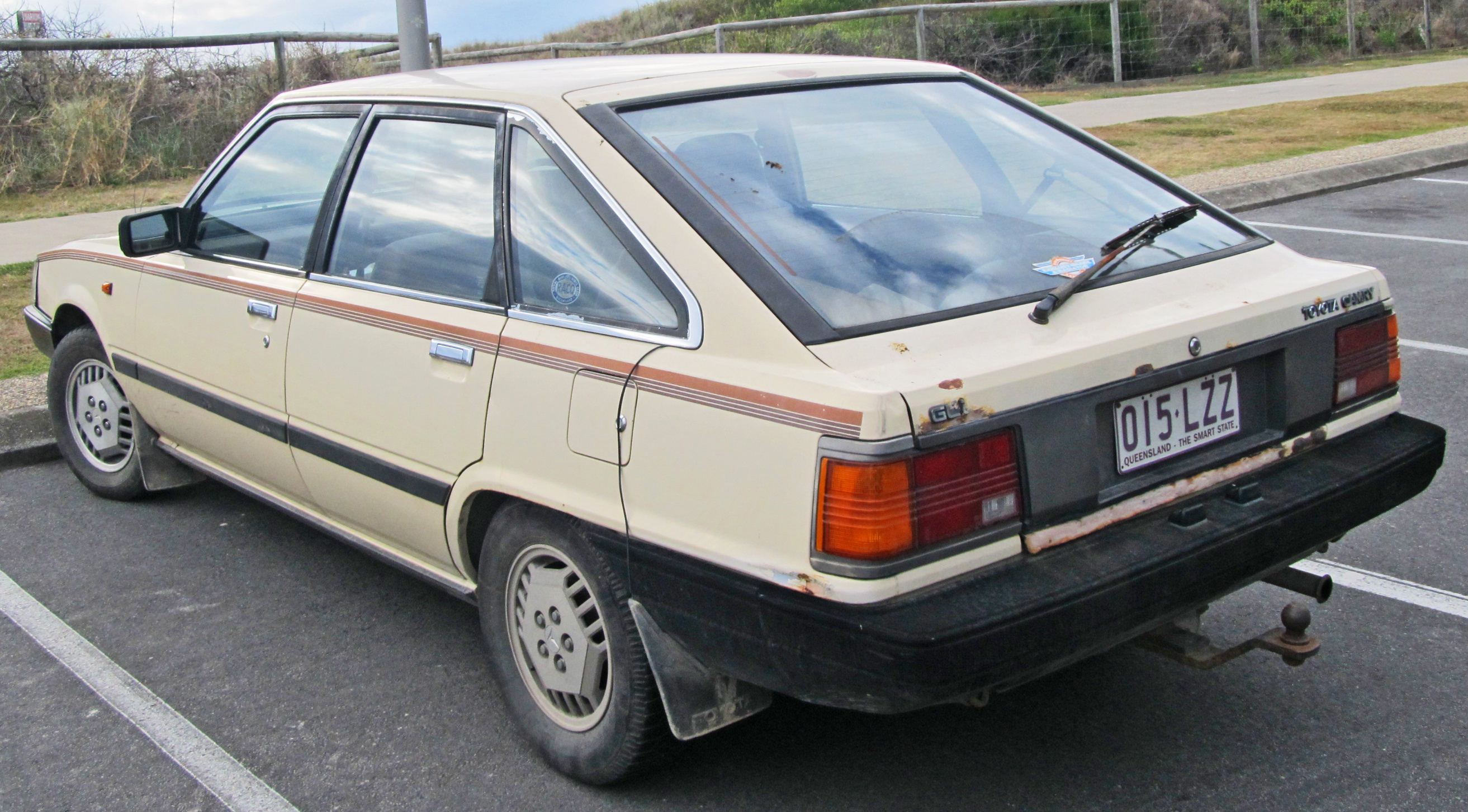 A rear view, showing a bit of rust on the bootlid. I do like these - I think they look very smart in the right spec and condition. I was pretty pleased to find this just over 12 hours after arriving in Aussie! Photo taken at 9.13am AEST, on October 2, 2012.